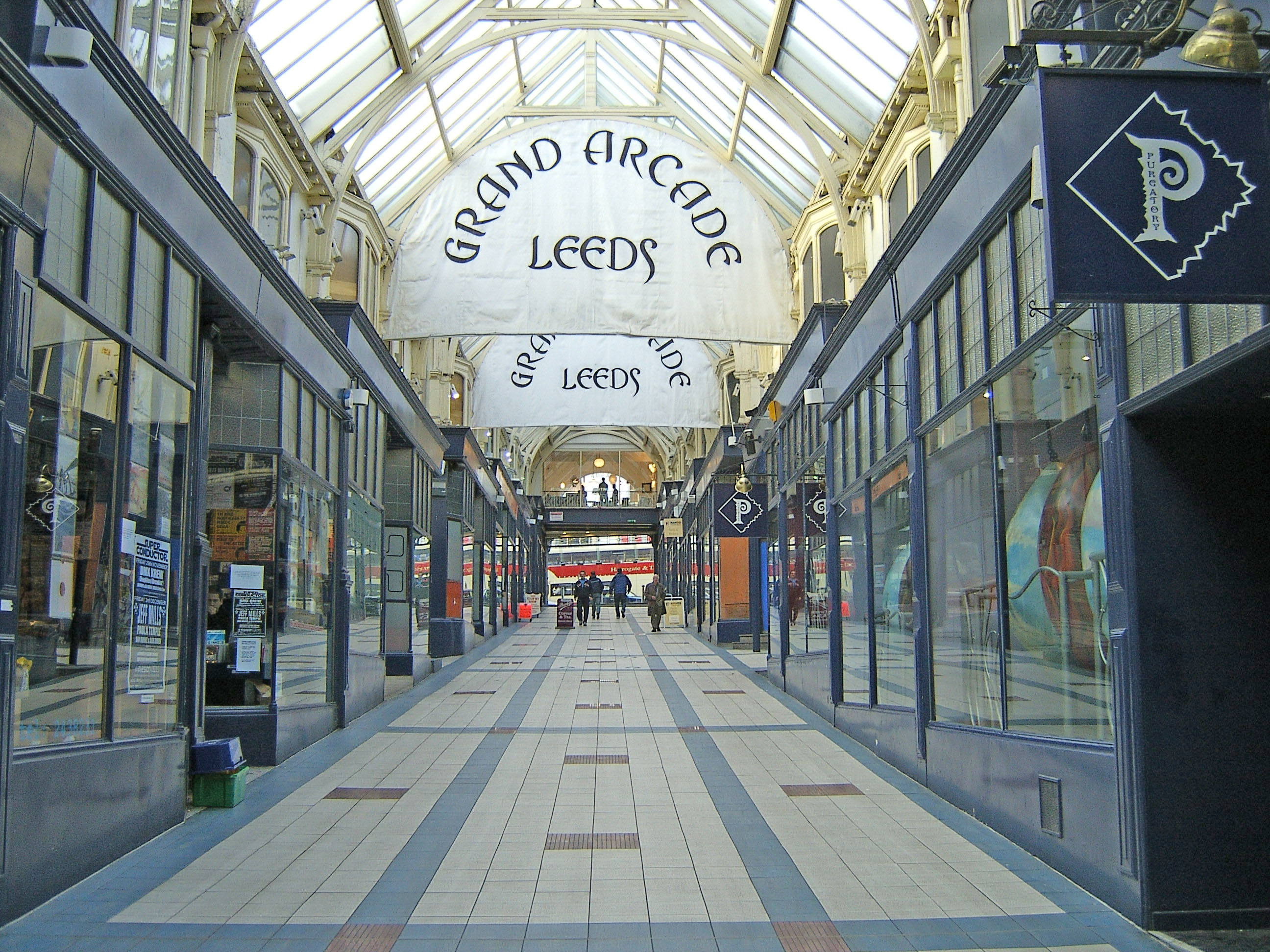 Grand Arcade, Leeds (shopping arcade)